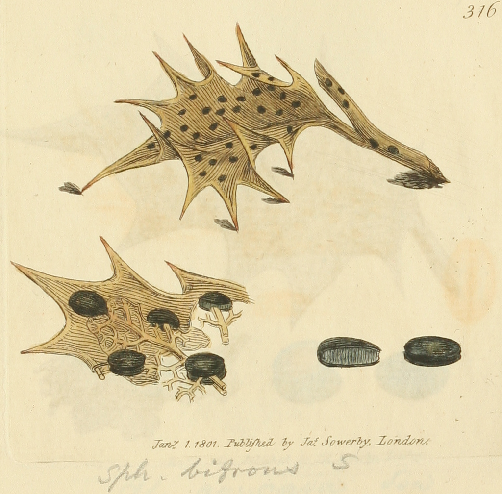 This is a plate from James Sowerby's Coloured Figures of English Fungi or Mushrooms.